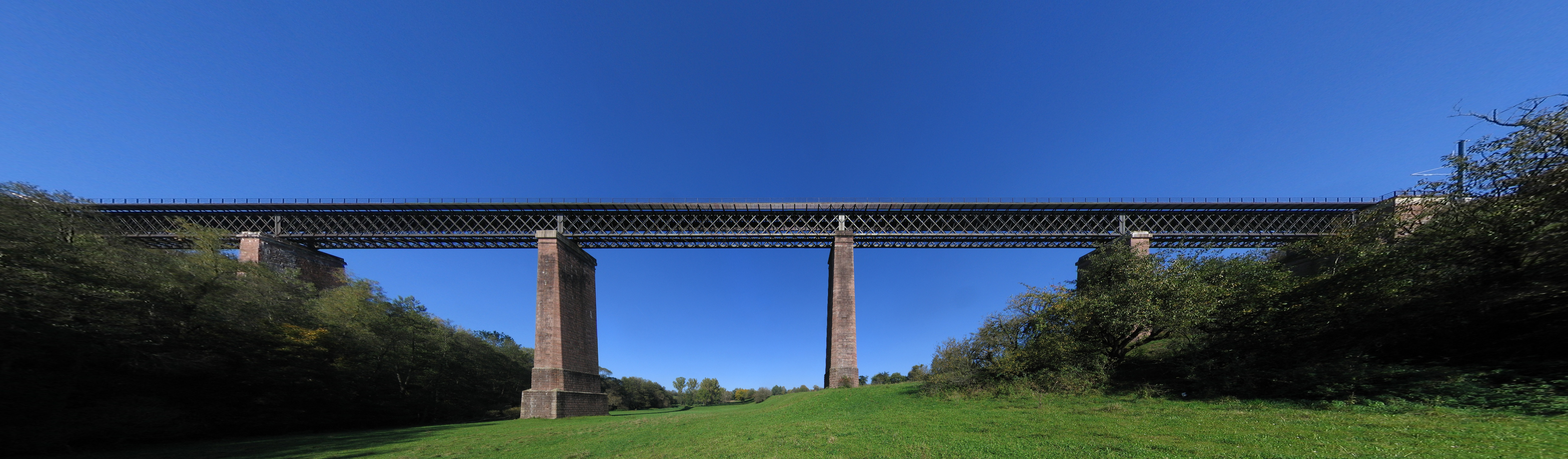 Kübelbachviadukt west of Dornstetten near Freudenstadt, Germany, part of the railway line Eutingen-Freudenstadt. One may notice some preparations for electrification. This rectilinear projection has been stitched from several original photos using hugin and enblend.